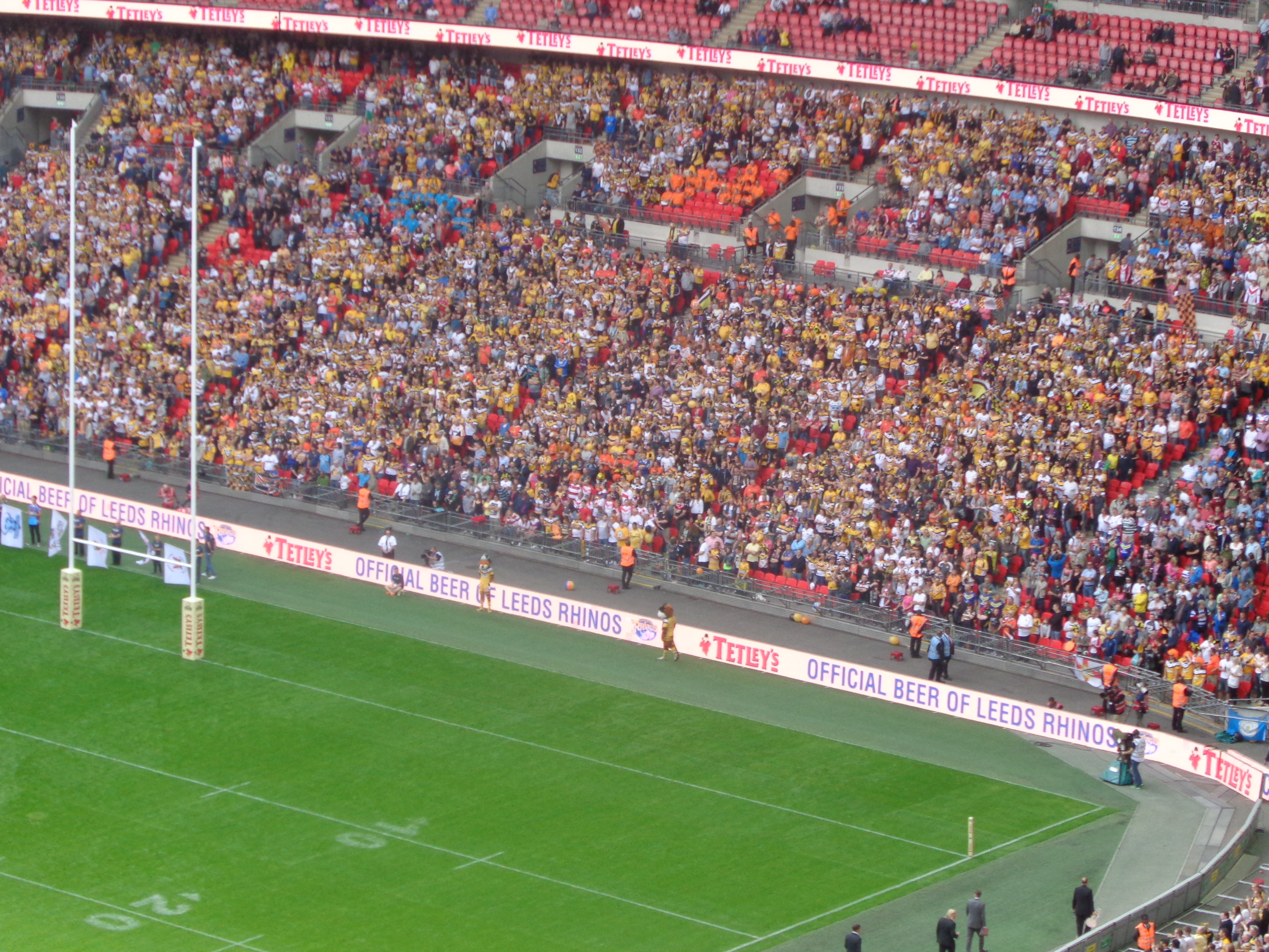 Castleford Tigers supporters at Wembley Stadium before the 2014 Challenge Cup Final between Leeds Rhinos and Castleford Tigers. The match was won 23-10 by the Leeds Rhinos with Ryan Hall taking the Lance Todd Trophy and was kicked off on 3pm on Saturday the 23rd of August 2014.